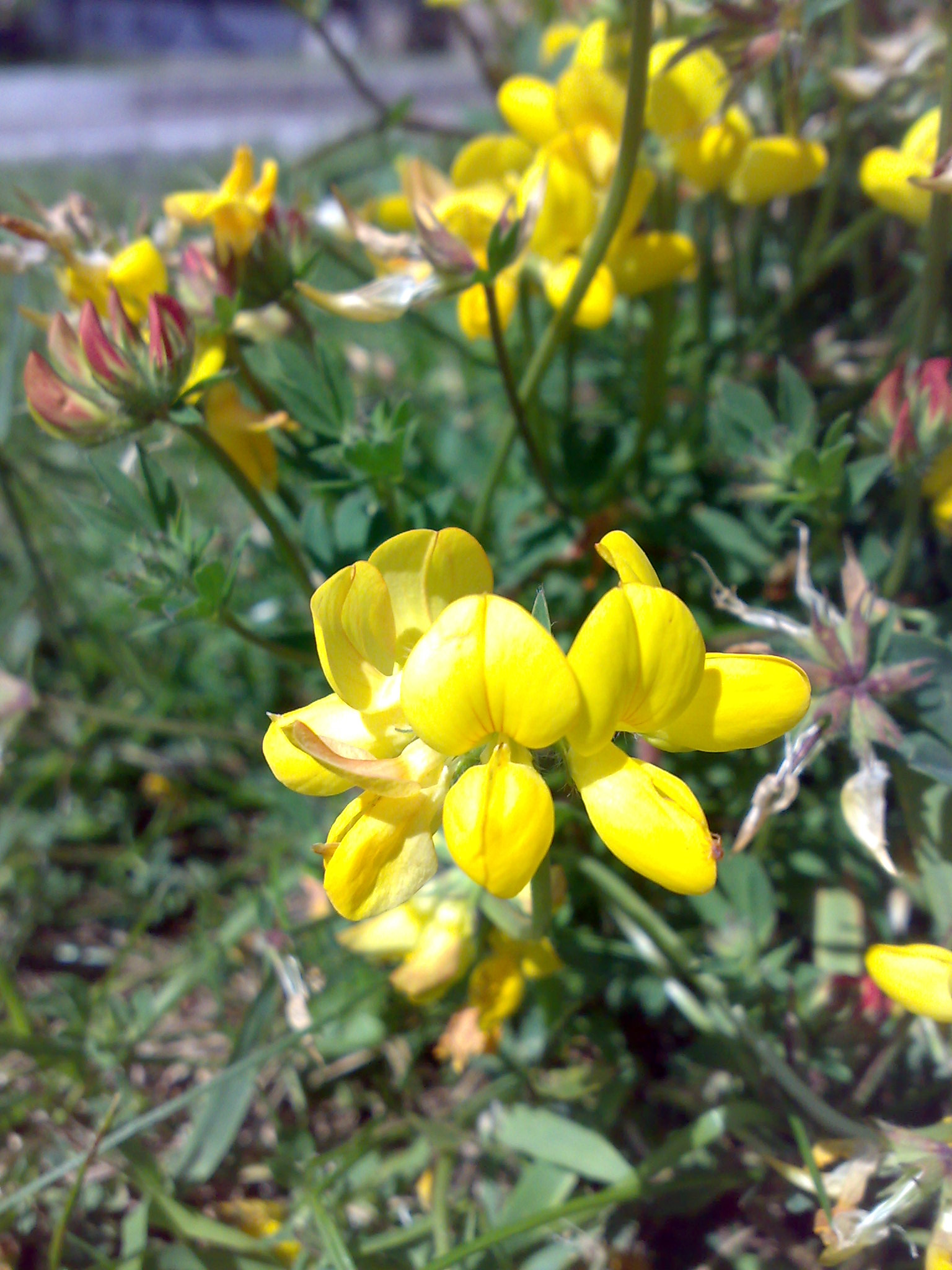 Lotus corniculatus